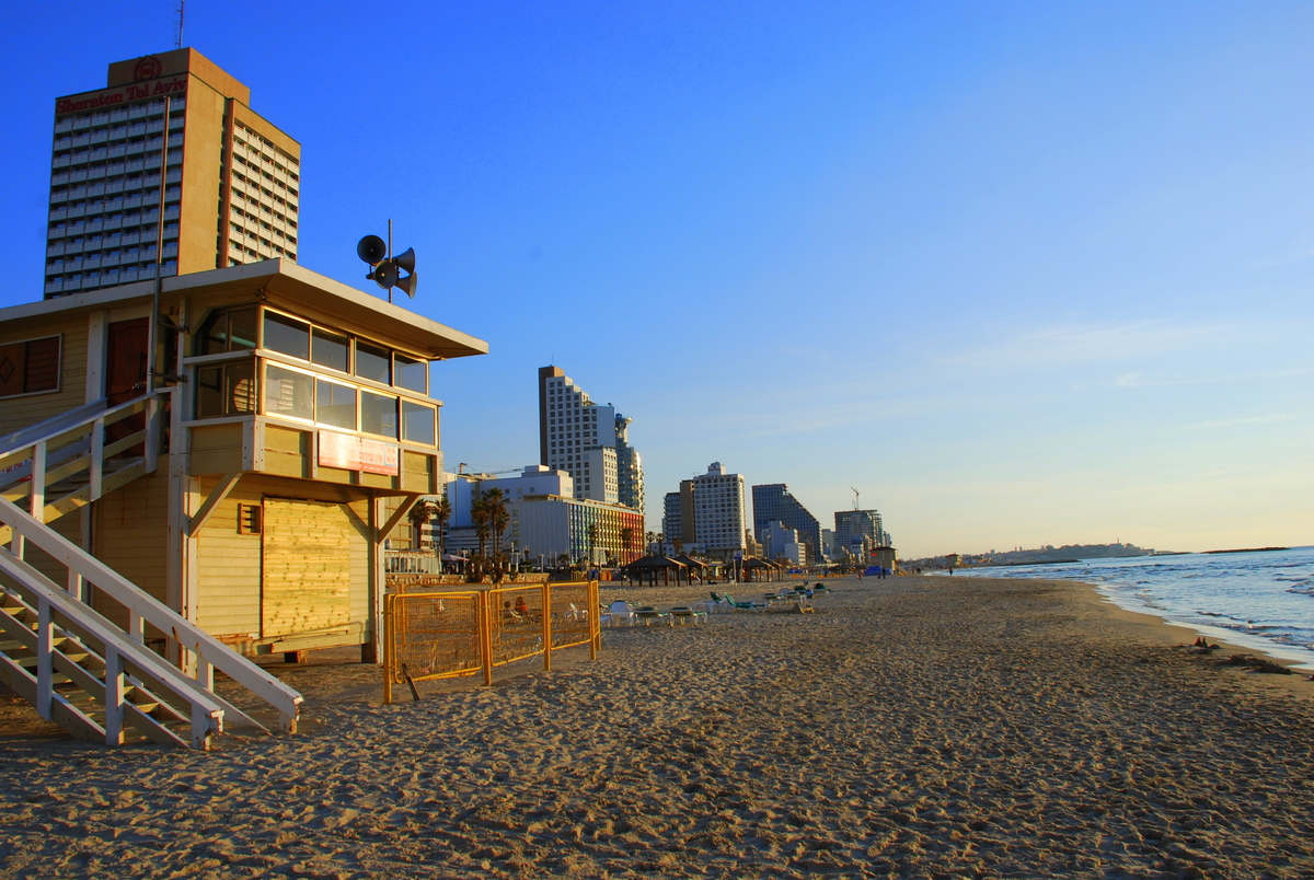 Tel Aviv beach, Geography of Israel